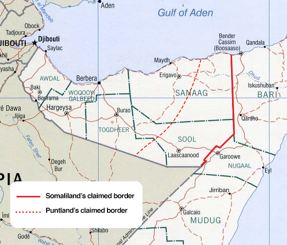 Map of Somaliland border dispute as of August, 2007.